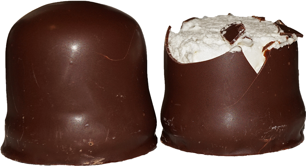 Vanilla Kiss from Brunberg. The candy is white foam with waffle-base, covered with chocolate.